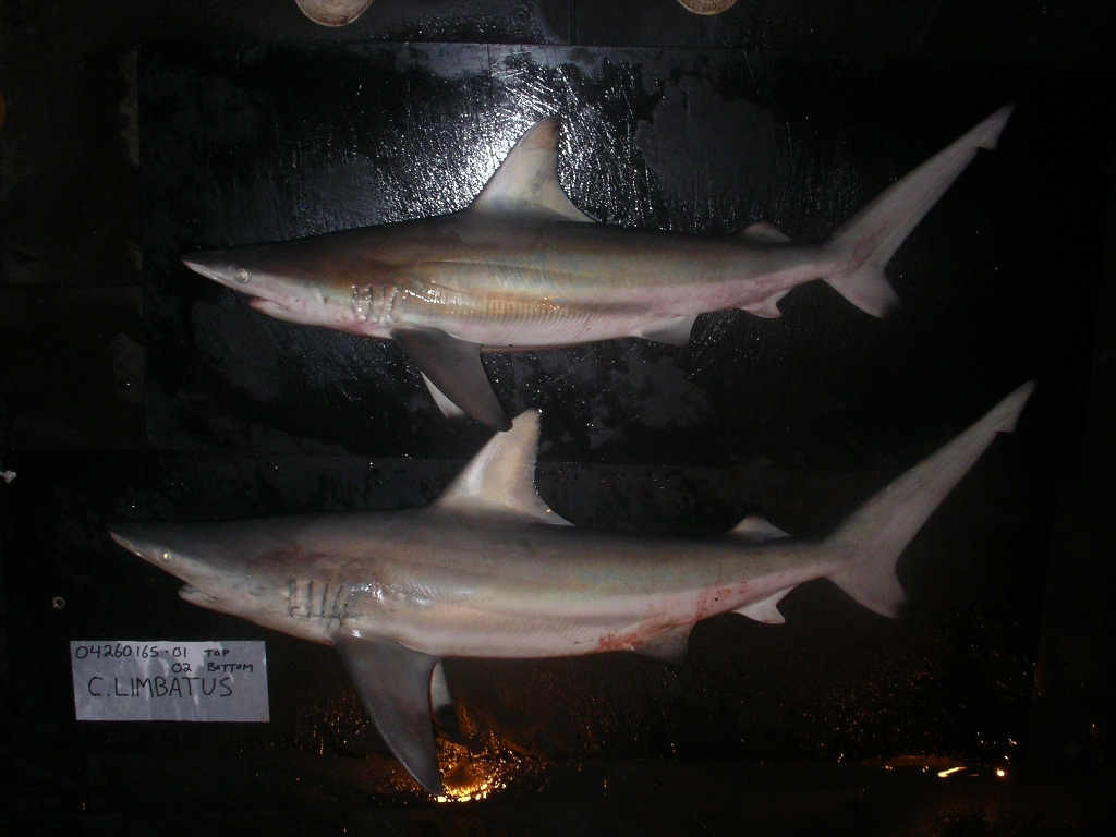 Blacktip shark (Carcharhinus limbatus ). Gulf of Mexico.